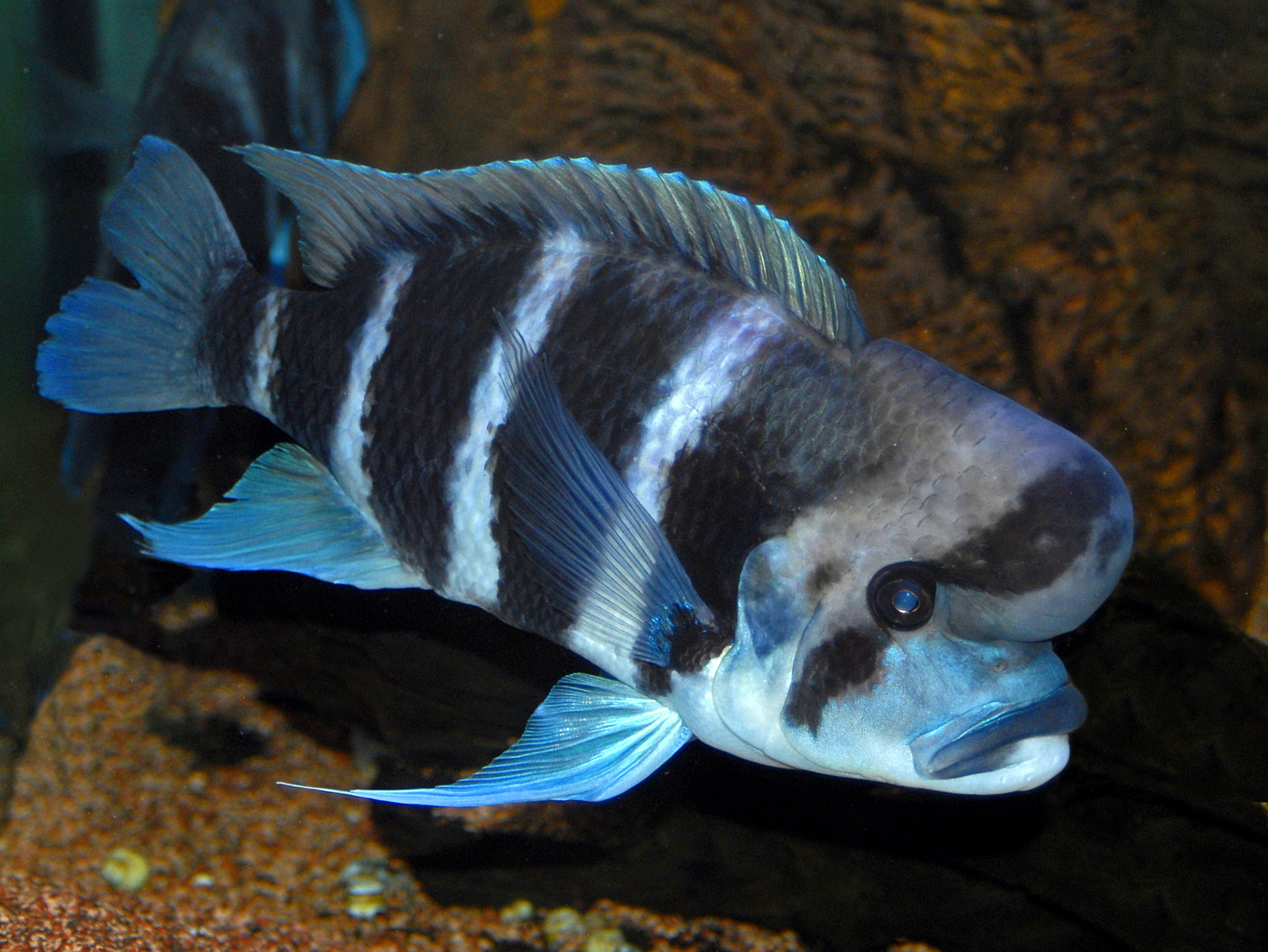 Cyphotilapia frontosa, on display at the Museo di Storia Naturale e del Territorio, Calci (Province Pisa), Italy